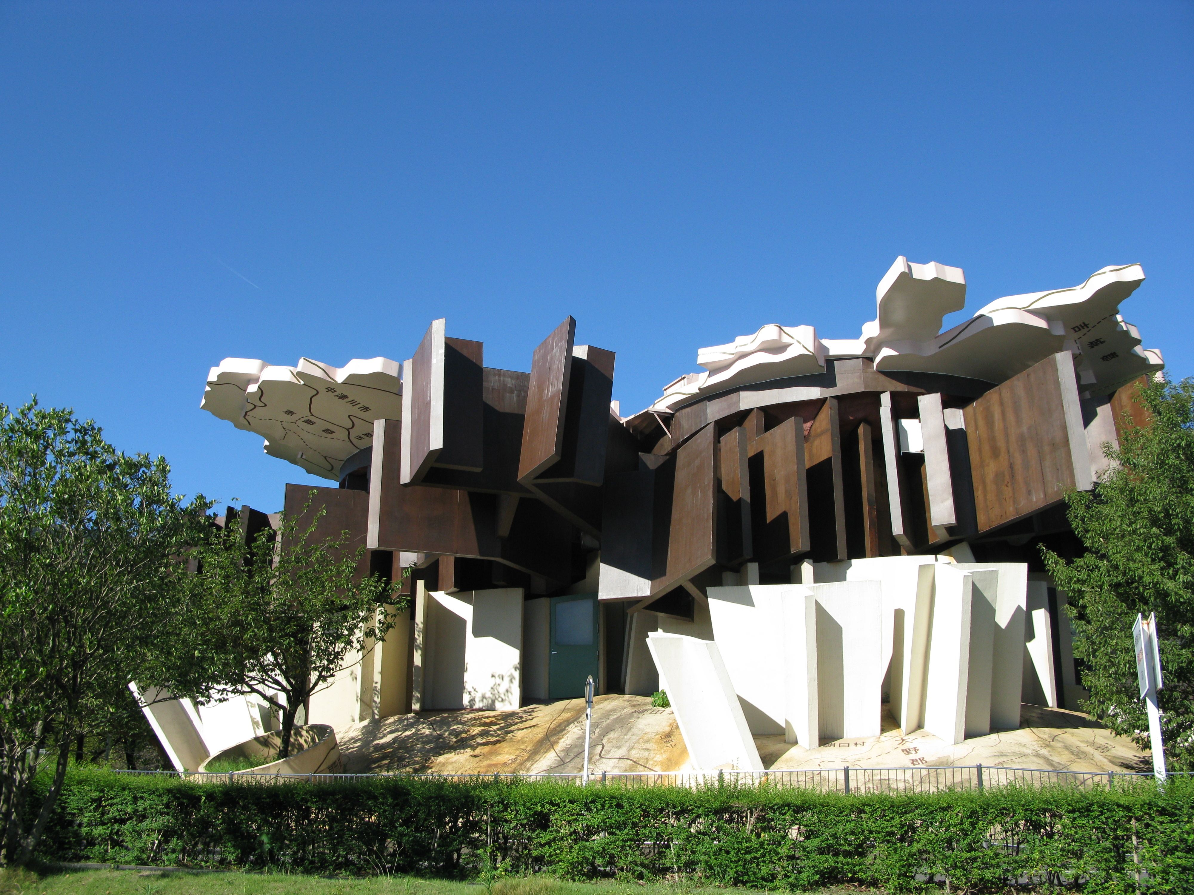 Critical Resemblance House (Main Pavilion)